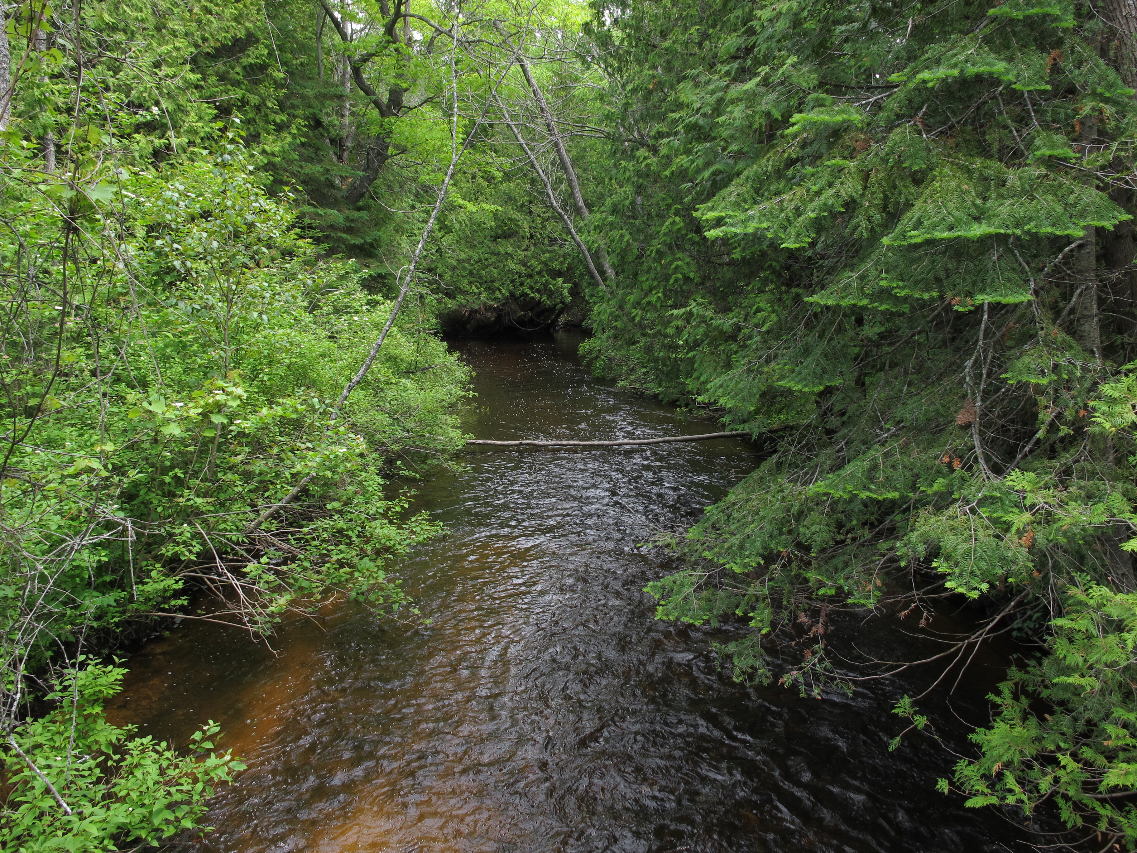 The Trout River as viewed from the Huron Sunrise Trail in Rogers City, Michigan.